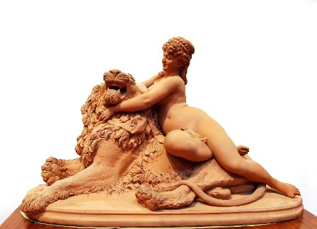 This image was provided to Wikimedia Commons by Biblioteca Museu Víctor Balaguer as part of an ongoing cooperative GLAMWIKI project with Amical Wikimedia. The artifact represented in the image is part of the permanent collection of Biblioteca Museu Víctor Balaguer. This work is free and may be used by anyone for any purpose. If you wish to use this content, you do not need to request permission as long as you follow any licensing requirements mentioned on this page.